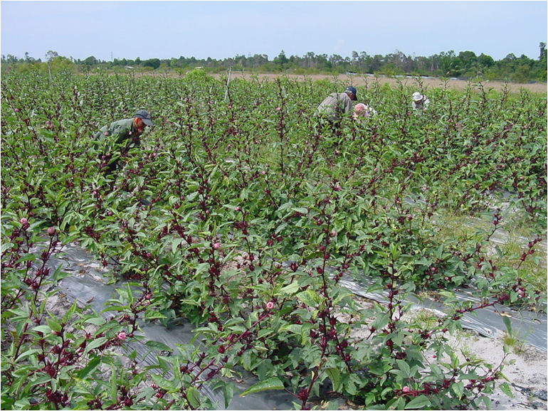 Harvesting roselle planted on bris (sandy) soils (Author: Dr. Mohamad bin Osman, Universiti Kebangsaan Malaysia (UKM), )